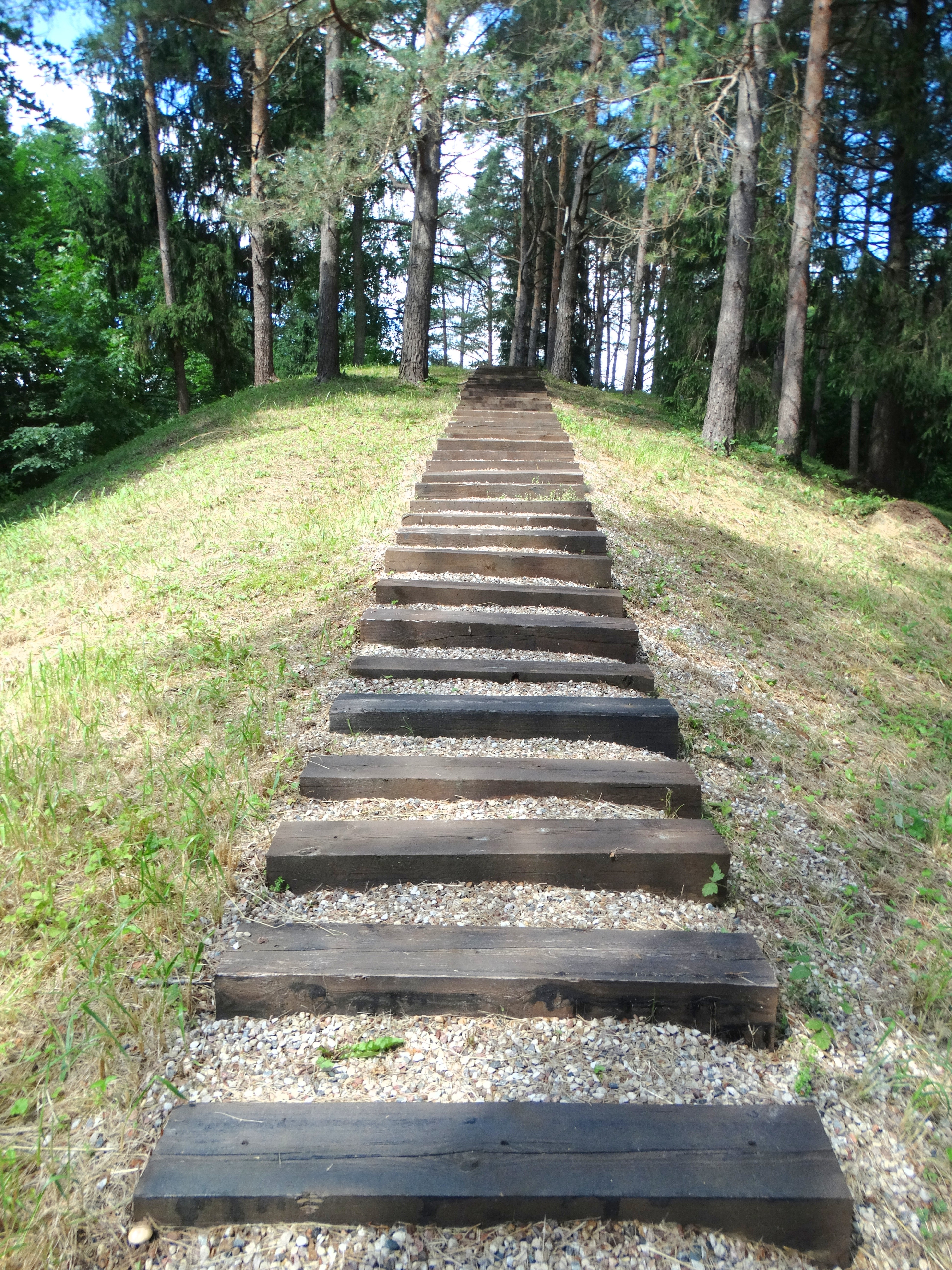 Dubiai hillfort, Jonava district, Lithuania